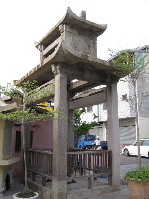 A historical stone building in Tainan, Taiwan.